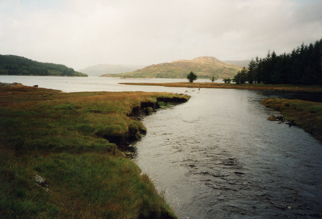 Seapool, Barr River